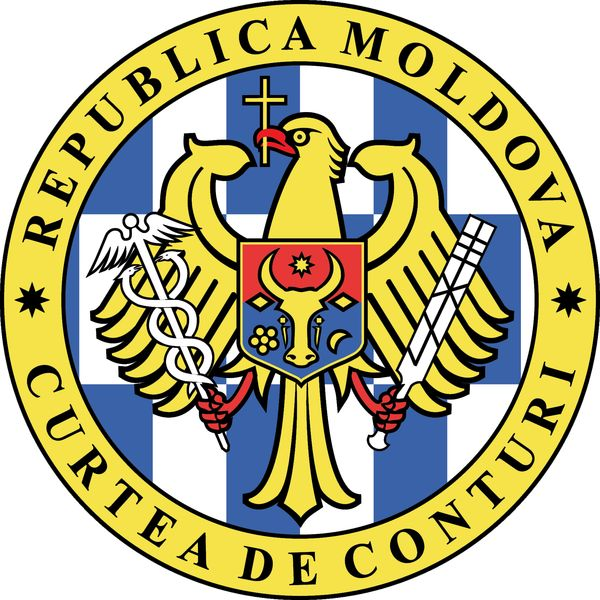 Moldova Court of Accounts Emblem